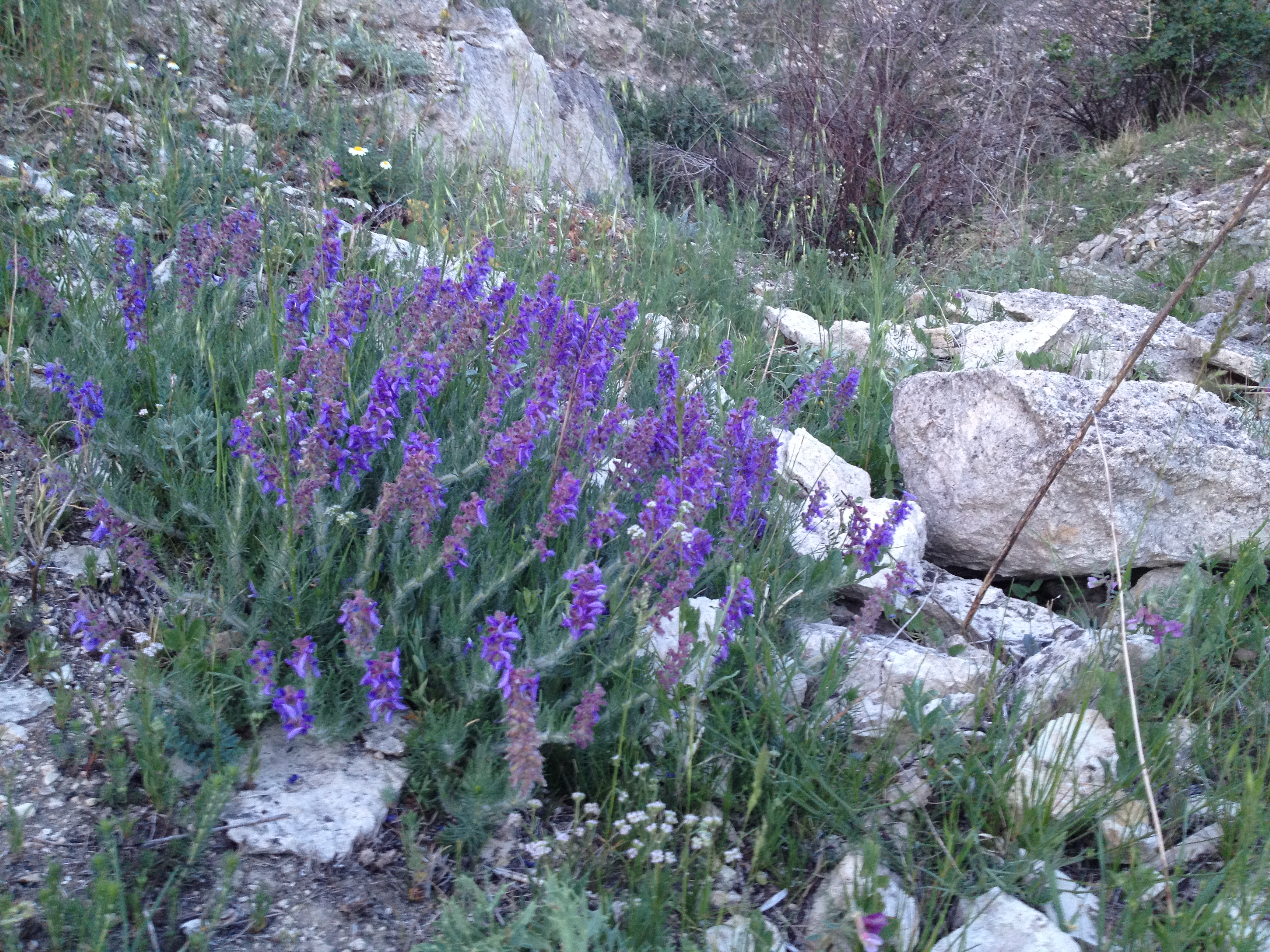 Rocky terrains are usually non-arable, providing crucial Salvia jurisicii habitats.